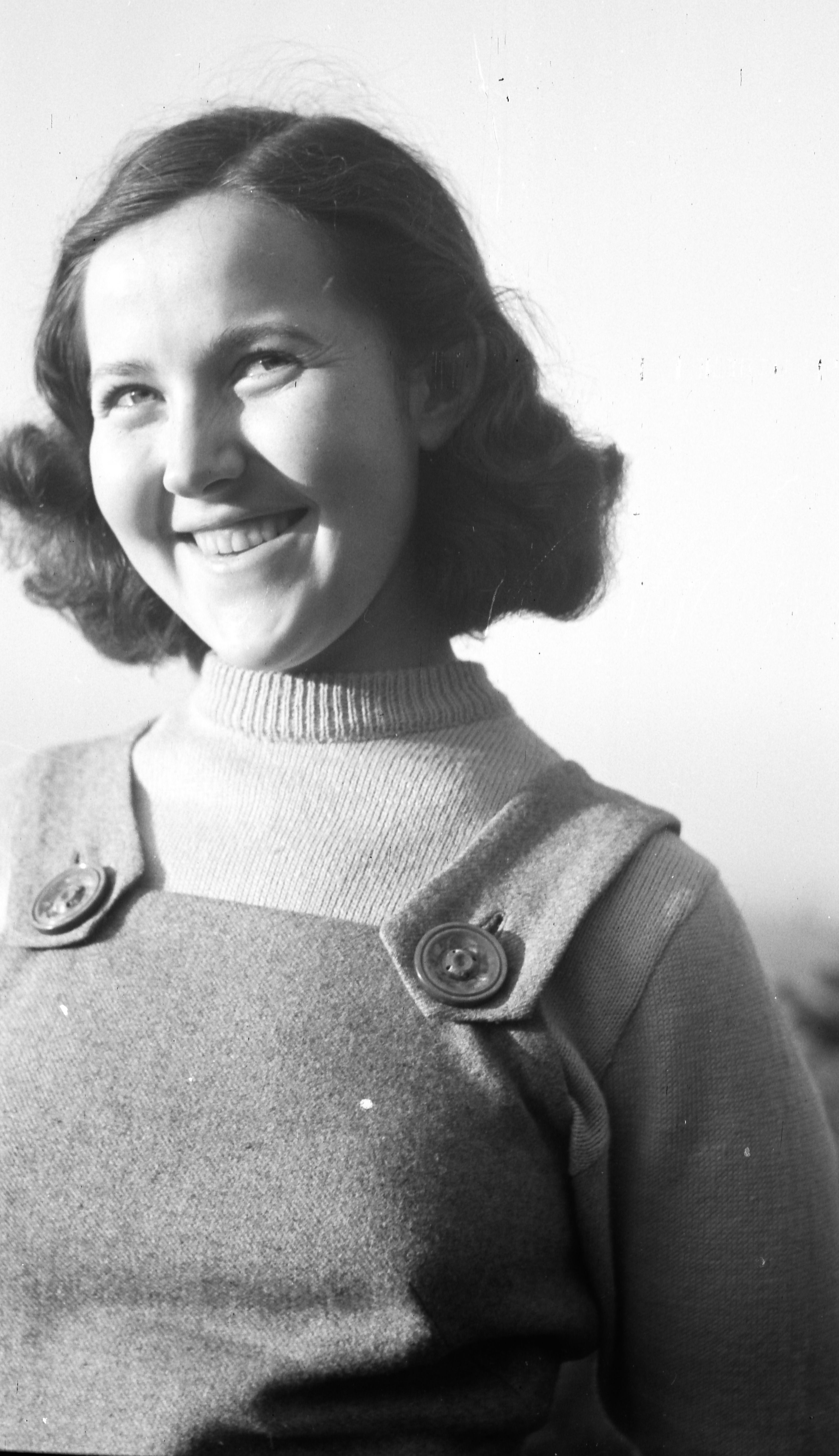 Flóra Kádár